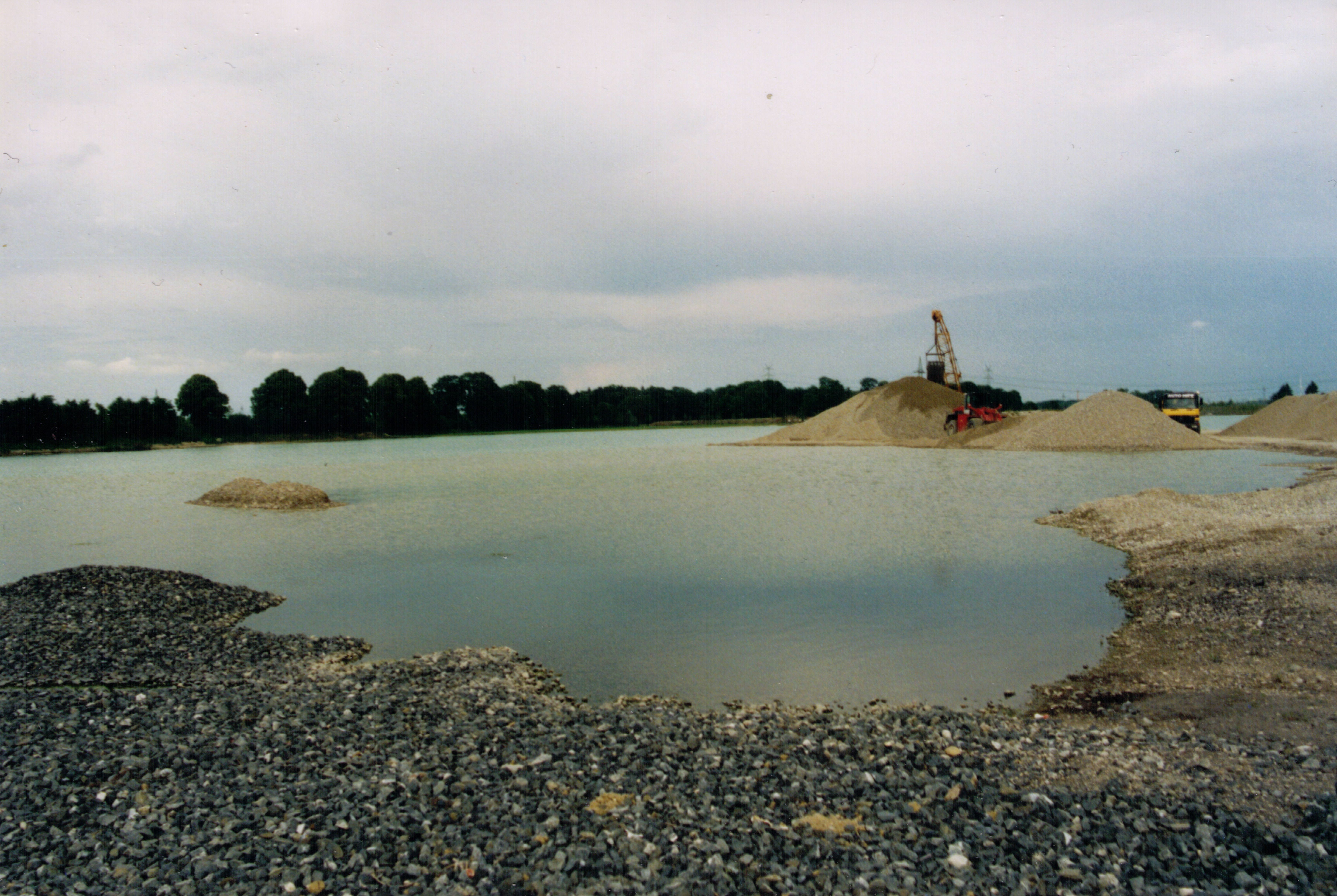 The Lußsee, one of the three lakes in the Langwieder lake district in Munich, Bavaria,1999